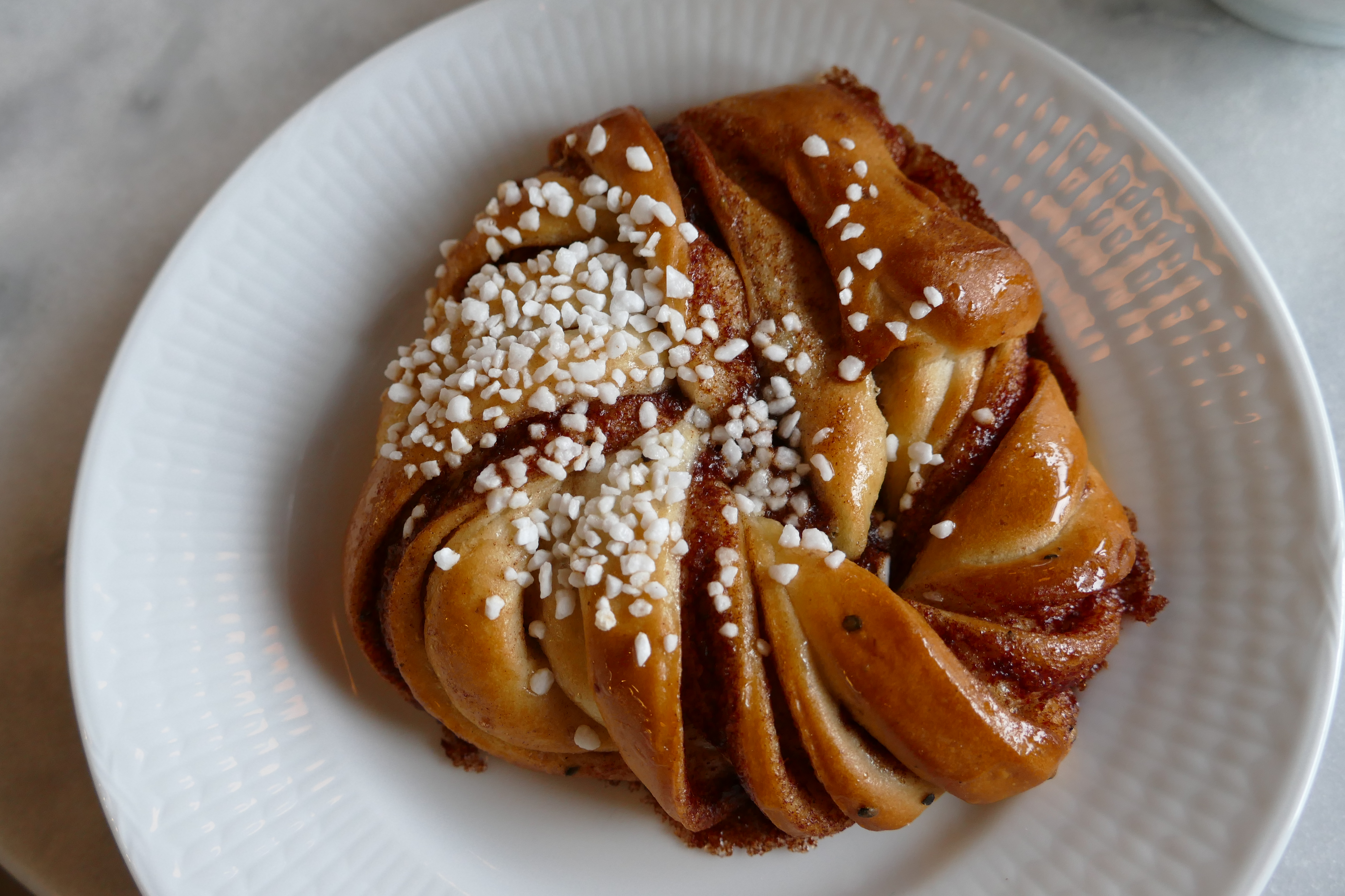 Cinnamon roll in Stockholm